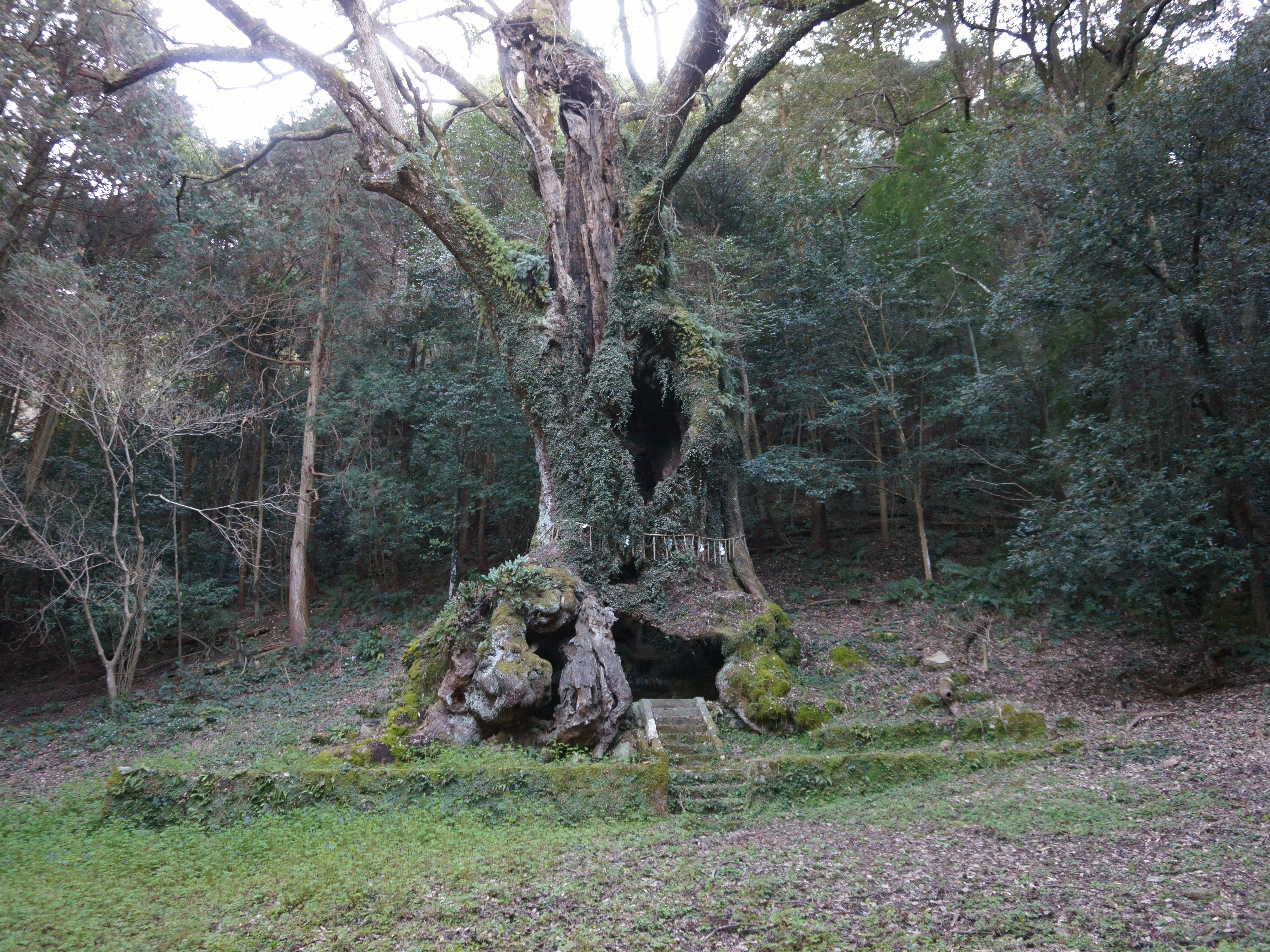 A 3,000 years old big camphor tree in Takeo(Takeo no Ōkusu), in Takeo city, Saga prefecture.